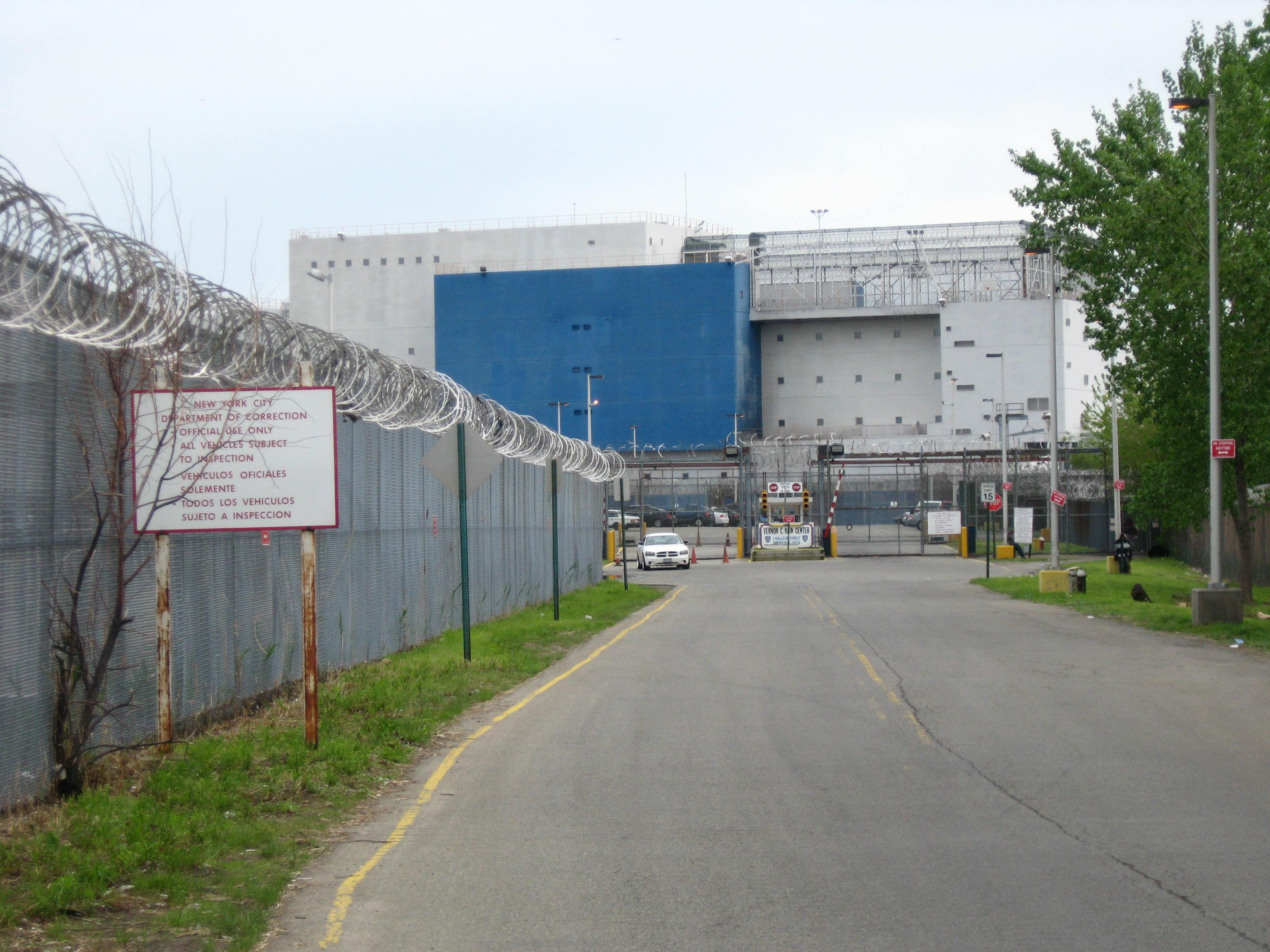 Looking south at Vernon C. Bain Correctional Center jail barge on a cloudy early May afternoon.